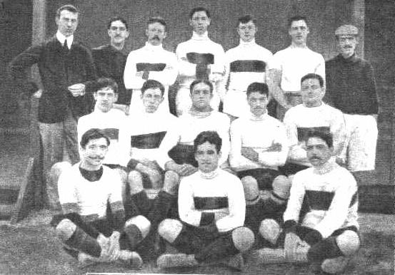 The Lima Cricket and Football Club team that won the Peruvian championship.